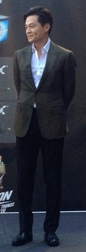 KCON music festival 2014, red carpet, Eric Nam, Lee Seo Jin